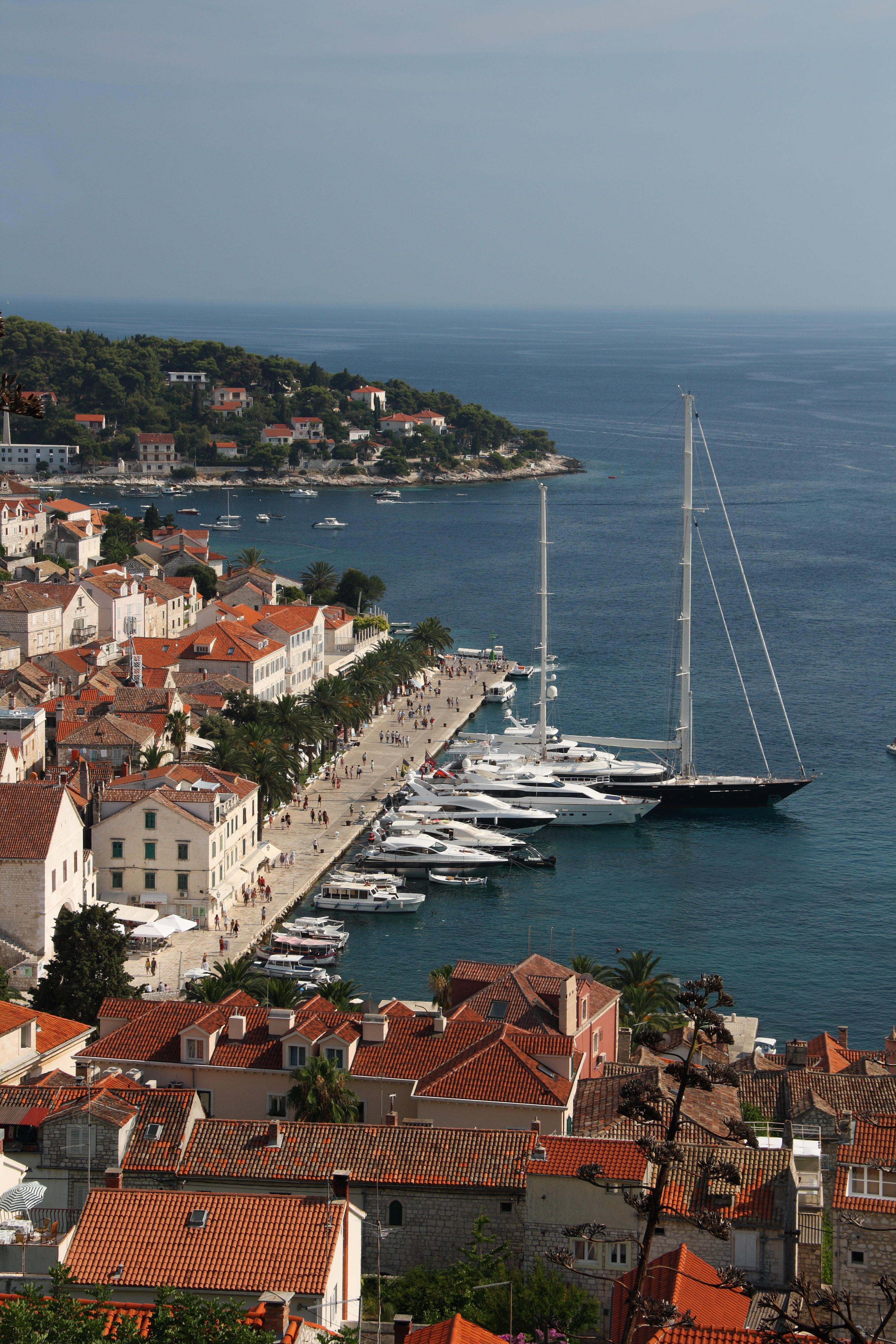 Yachts at the harbour of Hvar